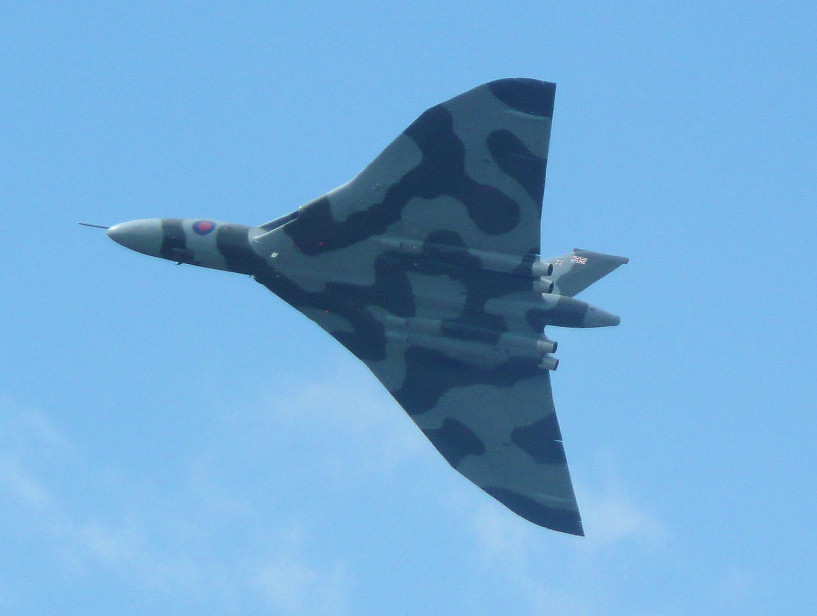 Vulcan XH558 takes its turn in the flying display at Farnborough Air Show 2008. The is one of the first display flights by this aircraft since its return to the air.